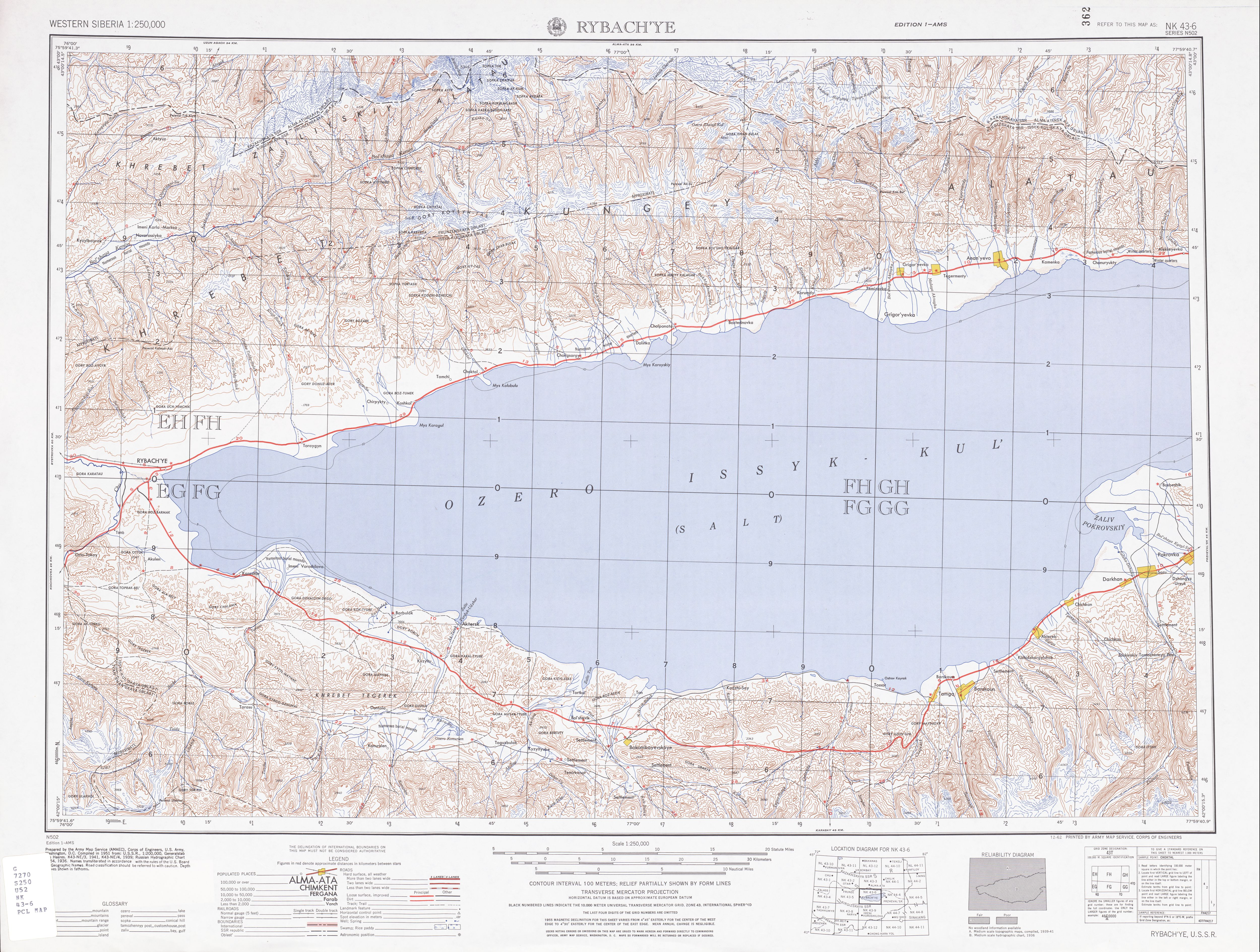 List from Western Siberia AMS Topographic Maps. Series N502, U.S. Army Map Service, 1955